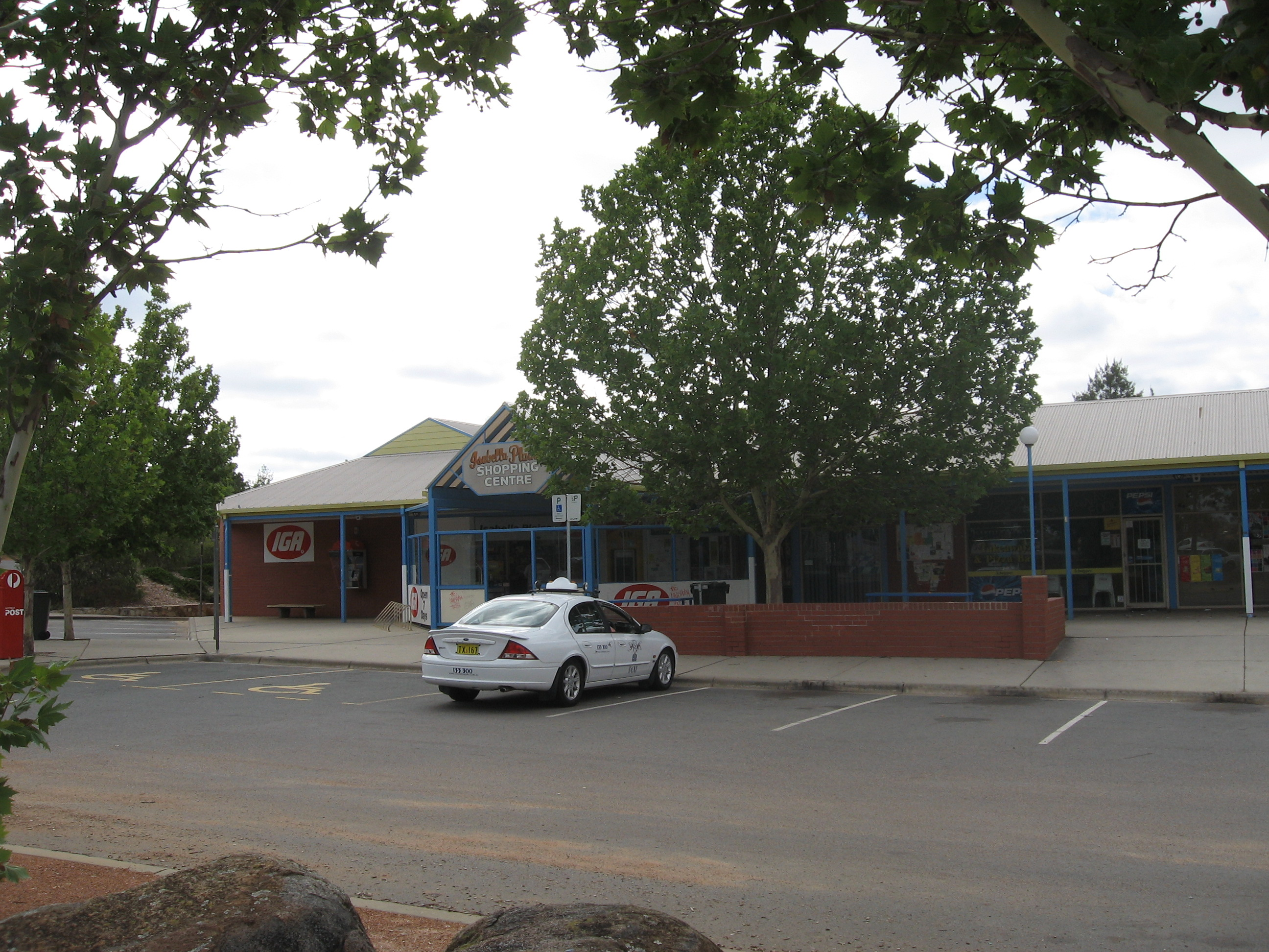 Isabella Plains Shopping Centre in Isabella Plains, Australian Capital Territory. I took this photo myself